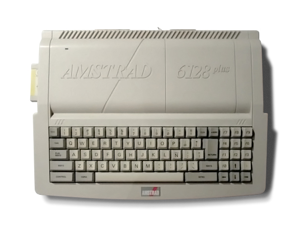 Bild-PD-nur_PD (Original text: Spanischer Amstrad CPC 6128 Plus)